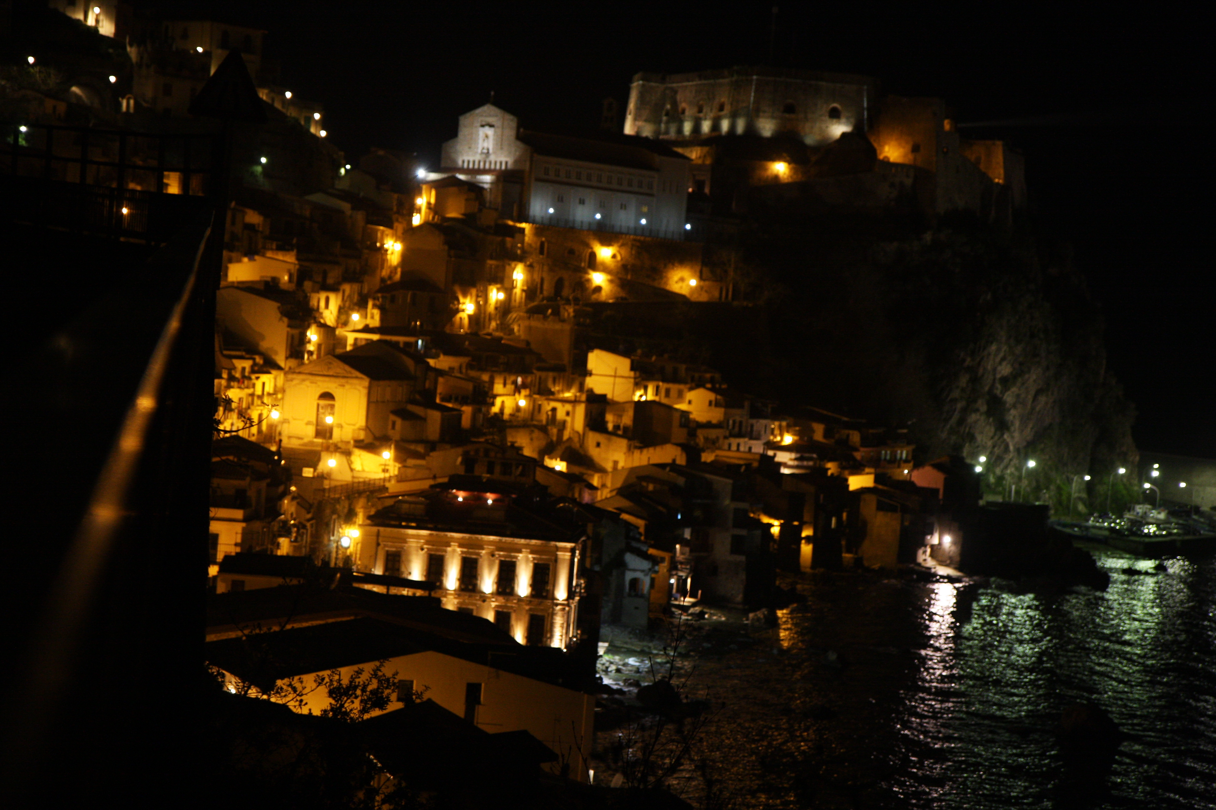 Locality:Chianalea lit(Scilla)